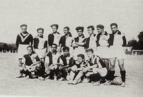 Istanbulspor 1931-1932 Istanbul League Champion